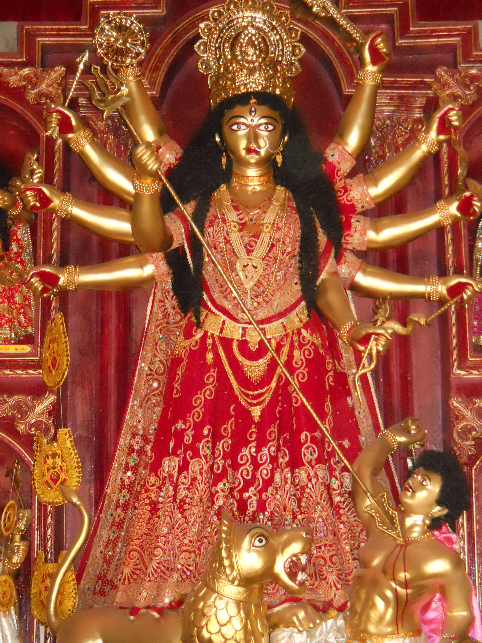 Sunilnagar